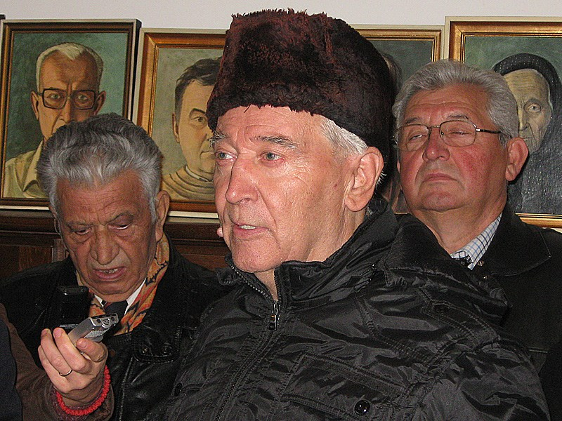 Hosting Miodrag Nagorno 2012. at the National Library in Vlasotince, Serbia